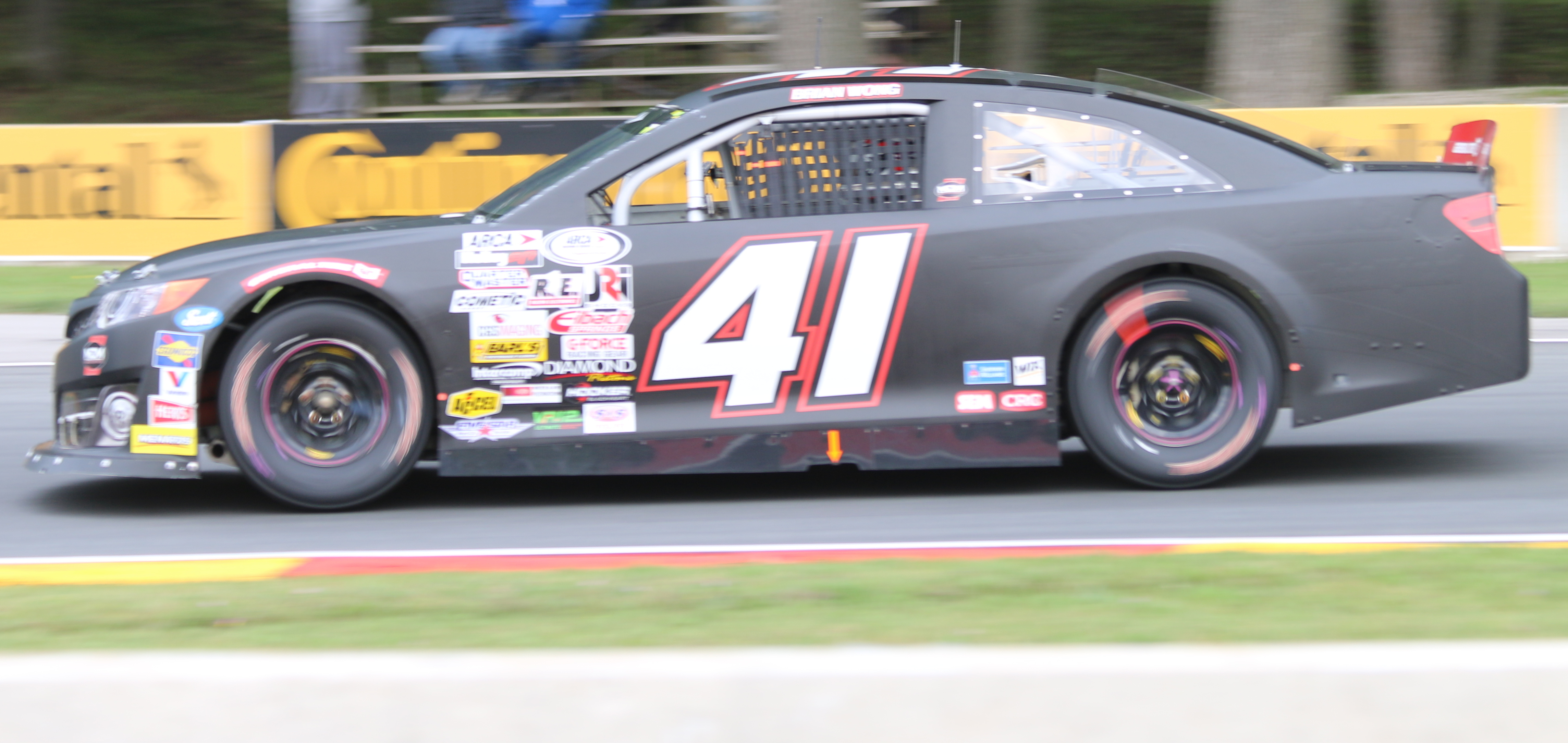 The ARCA Racing Series car of Brian Wong at the 2017 Road America 100 race.